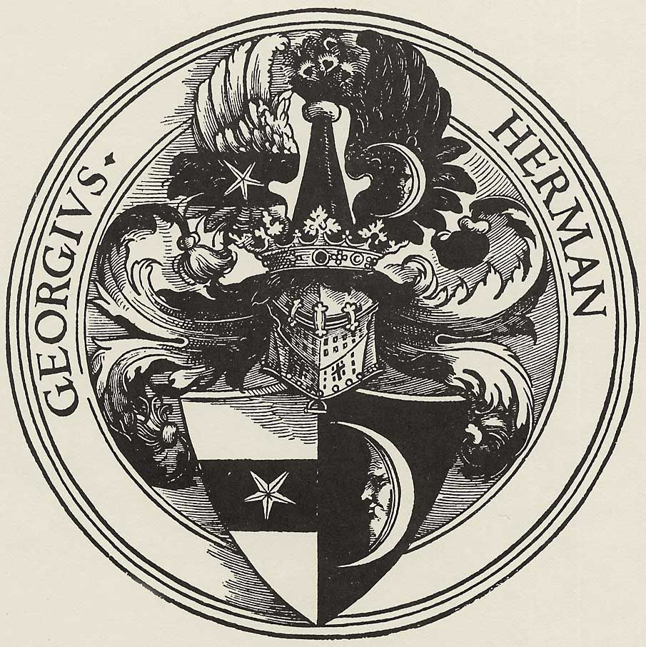 Coat of Arms of Georg Hörmann von und zu Gutenberg